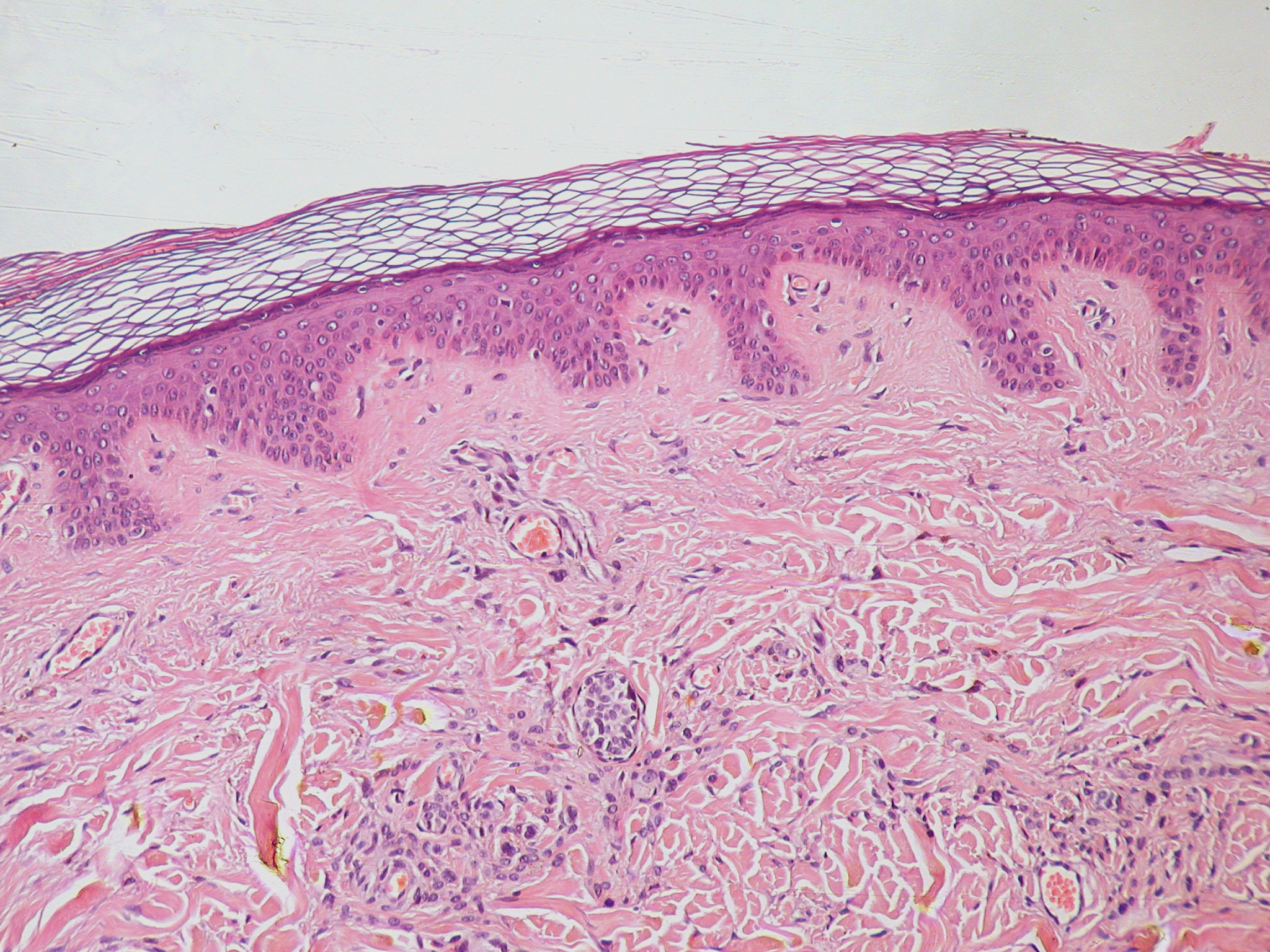 This is a hematoxylin and eosin stained slide at 10x of normal epidermis and dermis with a benign intradermal nevus.